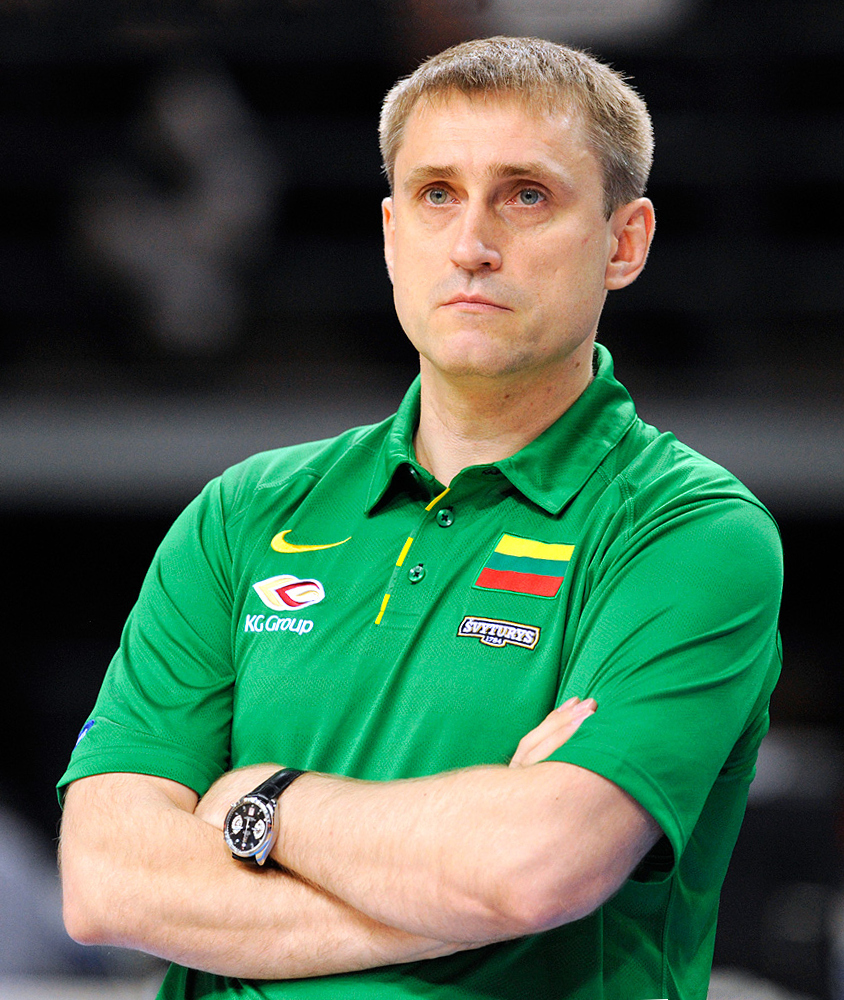 Head coach of Lithuania national basketball team Kęstutis Kemzūra during EuroBasket 2011 match between Lithuania and Greece (Zalgiris arena, Kaunas)